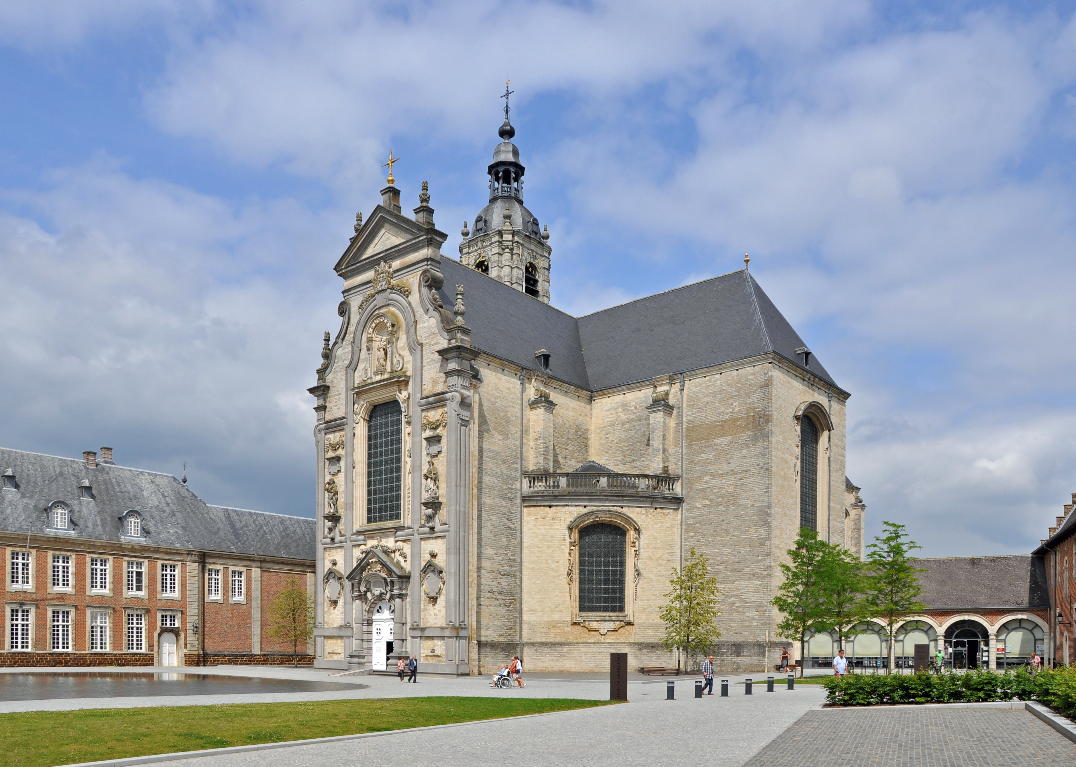 Averbode (Belgium): abbey church